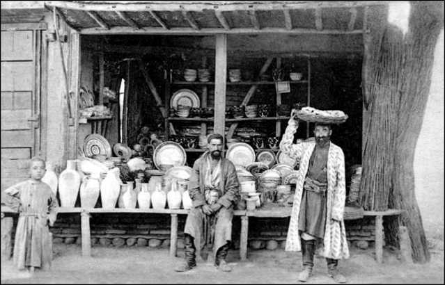 Kokand. Pottery sellers. 1913.